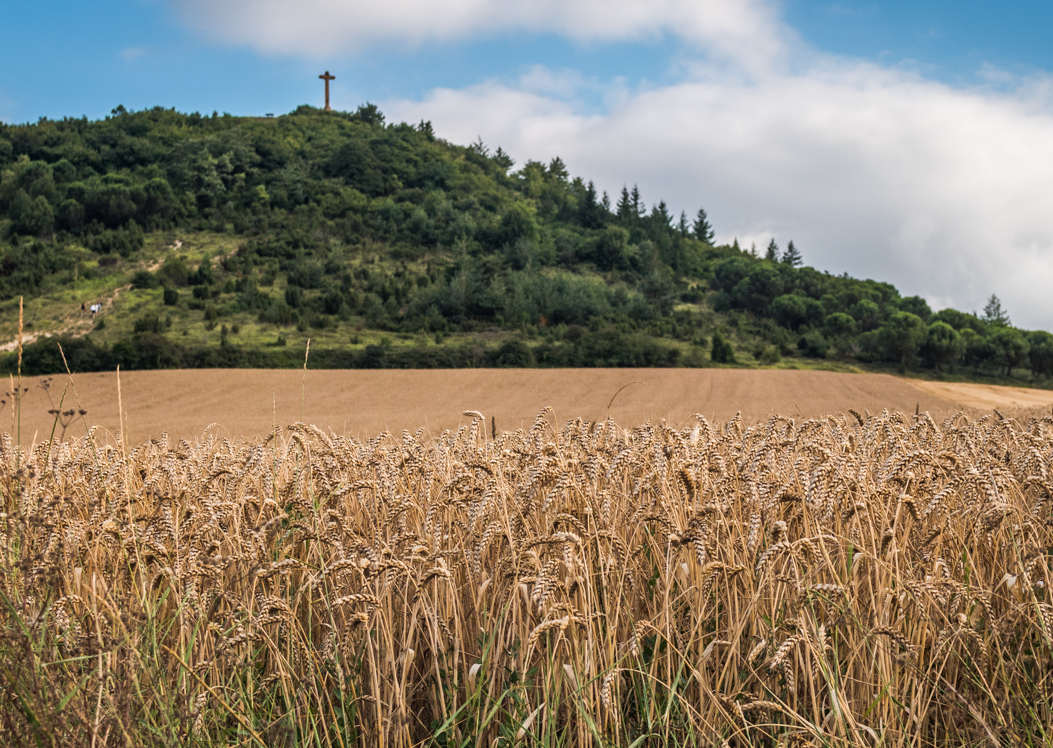 Wheat field below Olarizu mountain. Vitoria-Gasteiz, Basque Country, Spain